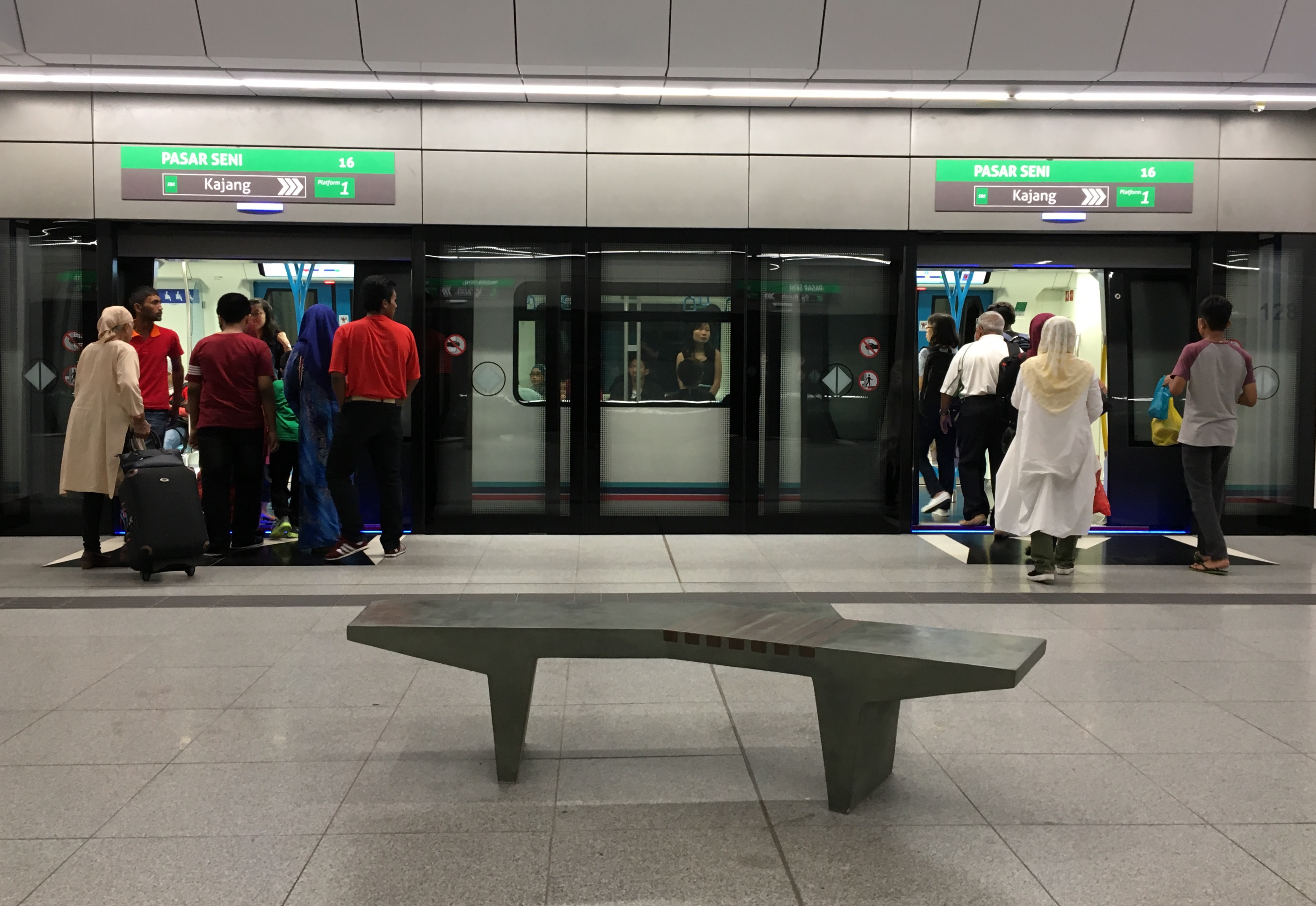 View of the bench at the Platform Level of the Pasar Seni MRT Station.